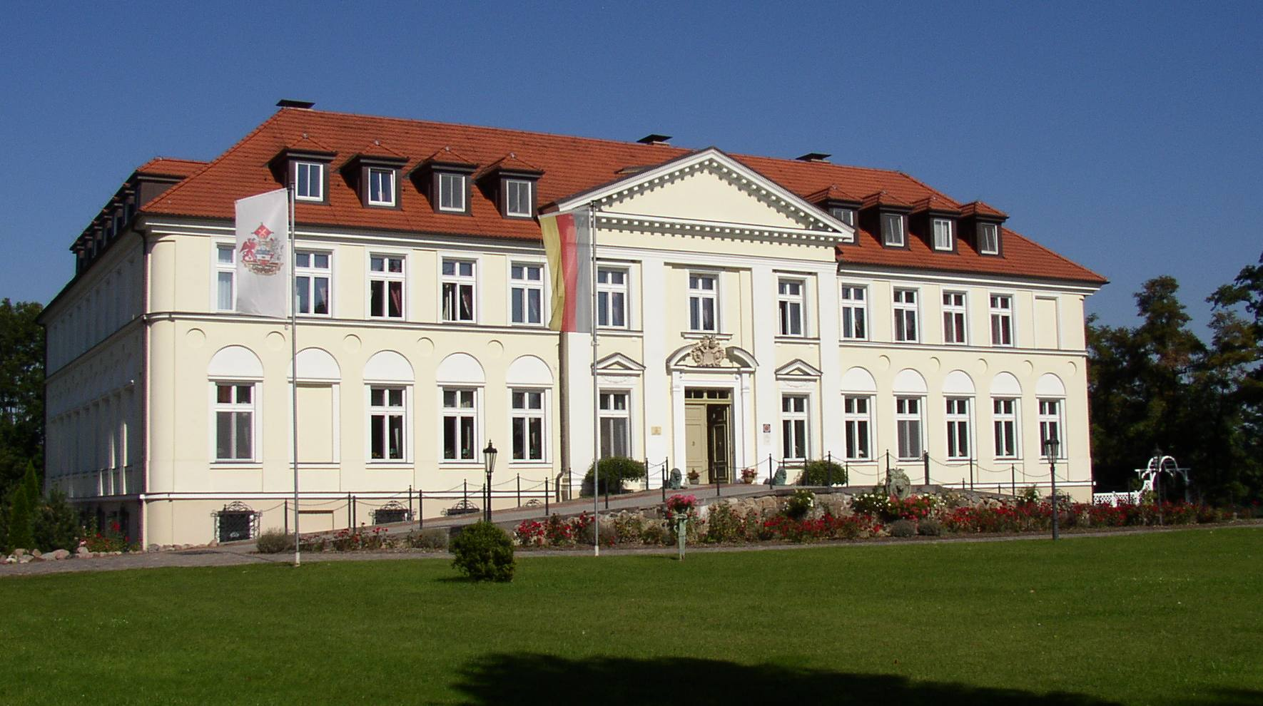 Palace in Schorssow in Mecklenburg-Western Pomerania, Germany